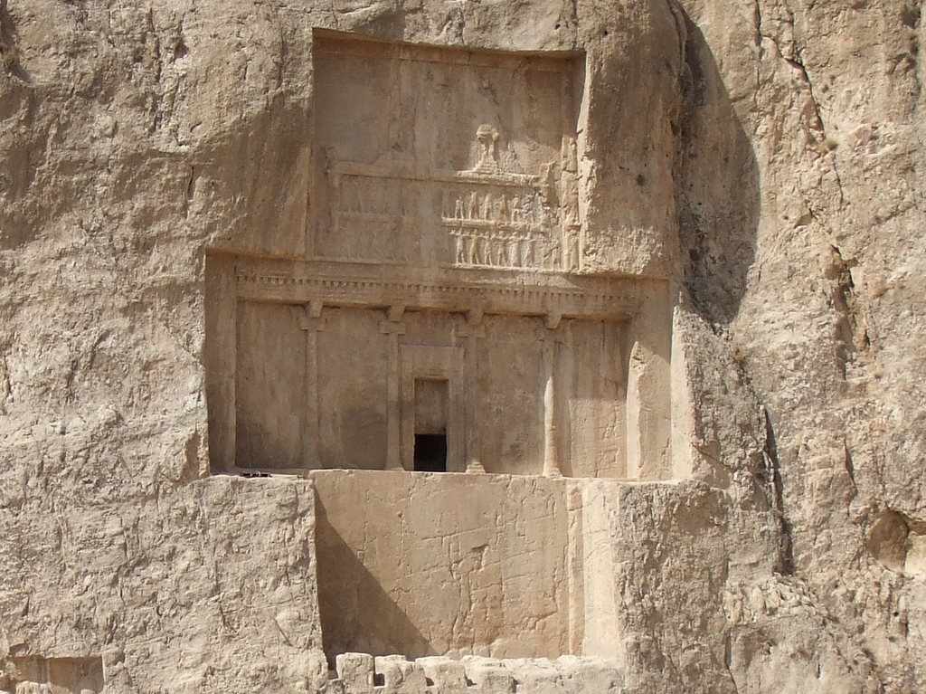 Tomb of Darius I at Naqsh-e Rustam, Iran.